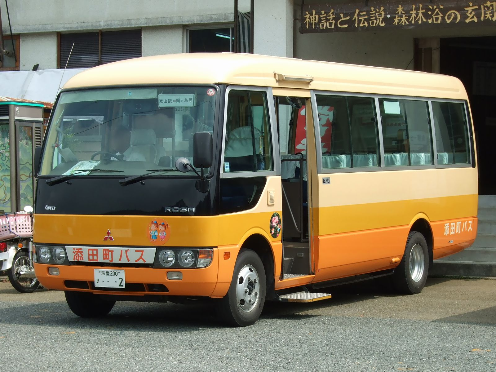 Soeda Town bus Company:Soeda Town, Fukuoka, Japan Use:transit bus Car license:筑豊200さ・・・2 Chassis manufacturer:Mitsubishi Fuso Truck and Bus Corporation Coachbuilder:Mitsubishi Fuso Truck and Bus Oe bus factory Location:at Hikosan Station, Soeda Town, Fukuoka, Japan